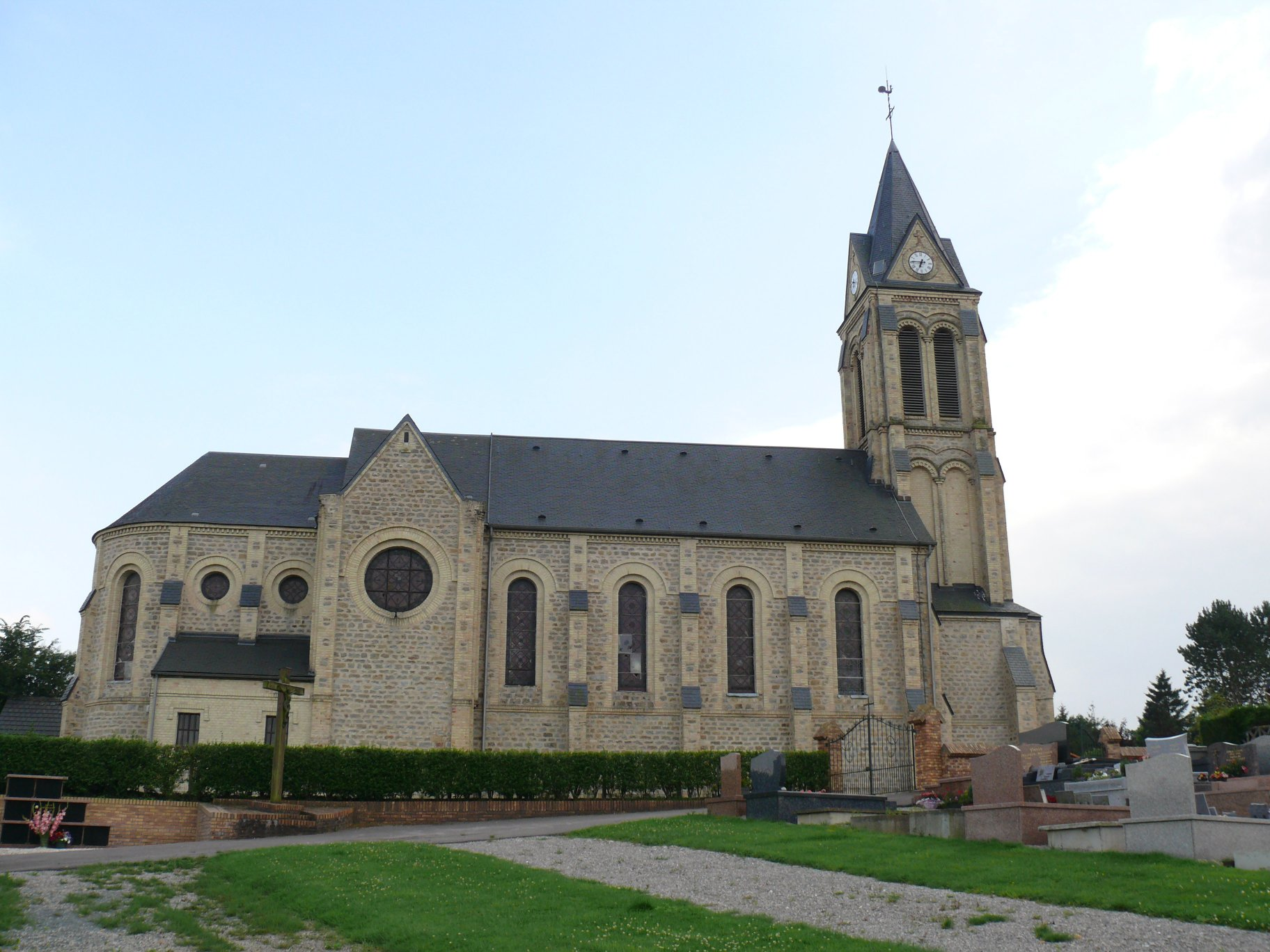 Saint-Martin's church of Carly (Pas-de-Calais, France).